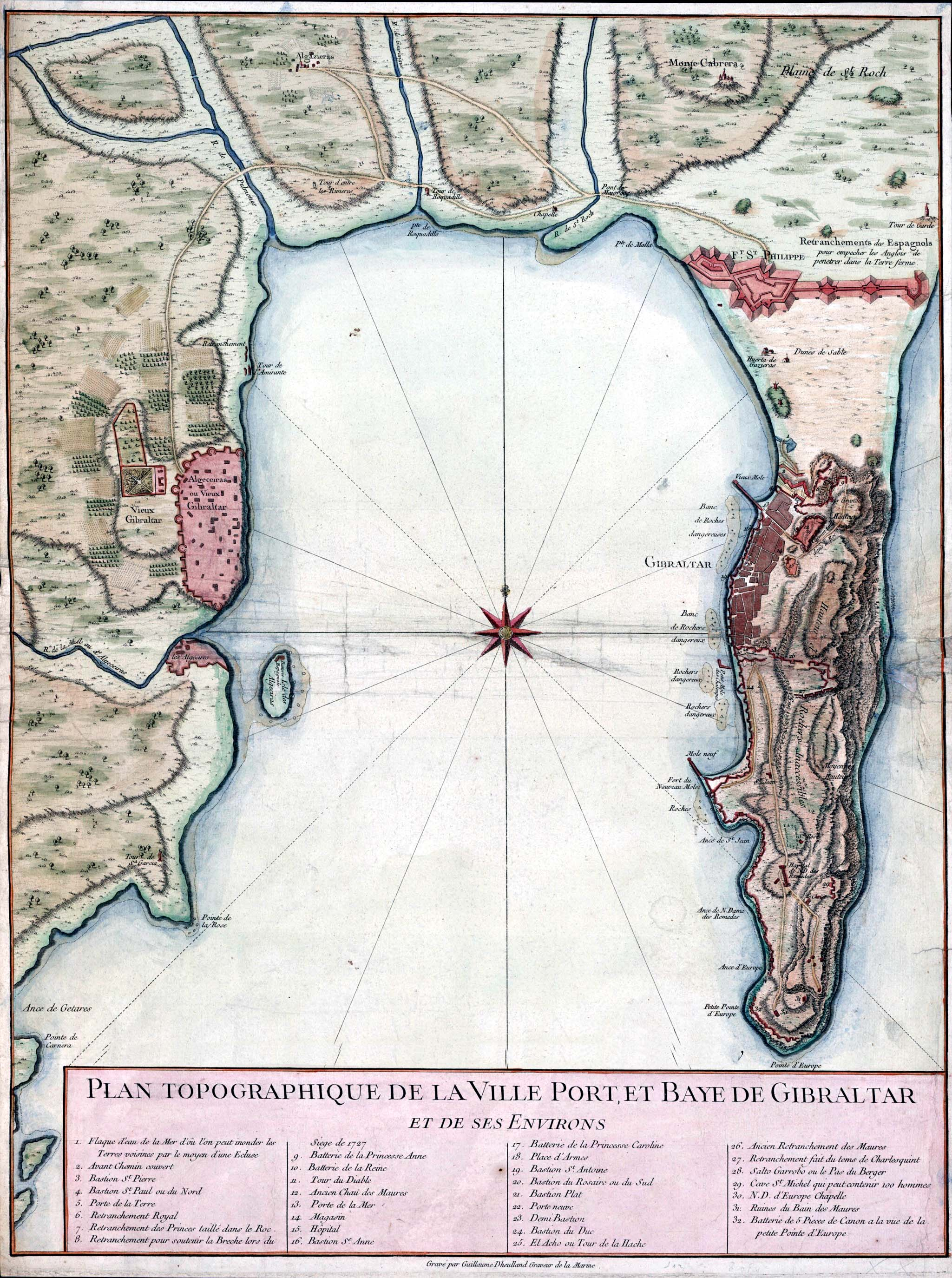 Topographic map of Gibraltar and the Bay of Gibraltar, circa 1750